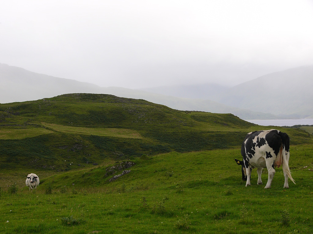 Cows in Lismore, Scotland